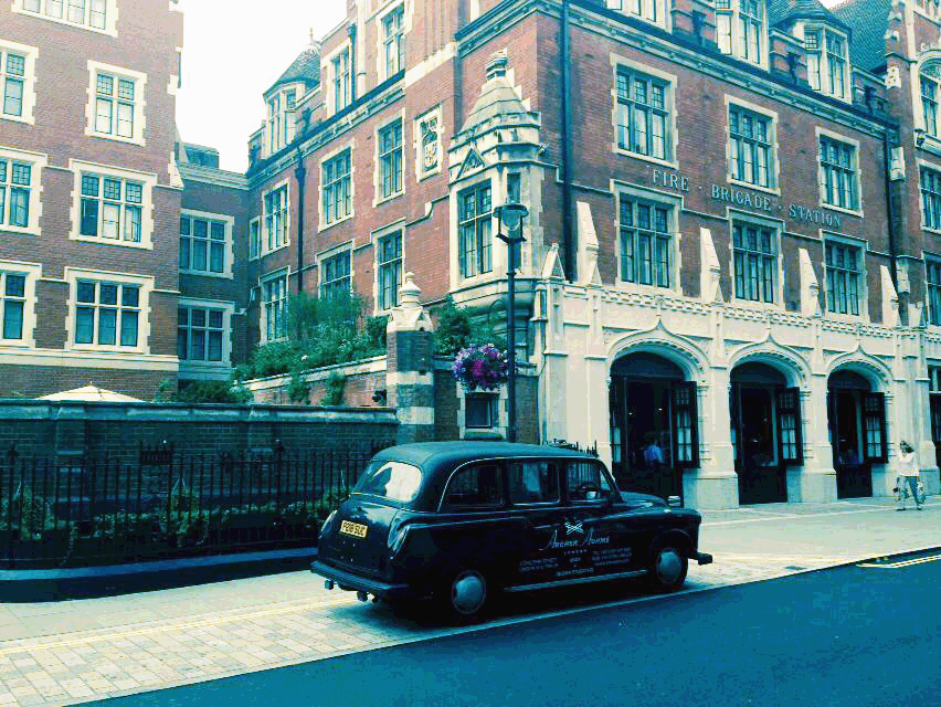 A photograph of the Chiltern Firehouse hotel and restaurant.